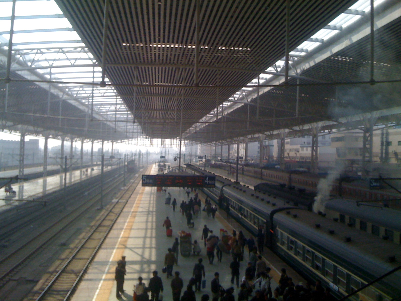 Platform Of Xuzhou Railway Station 中文（中国大陆）: 徐州火车站站台